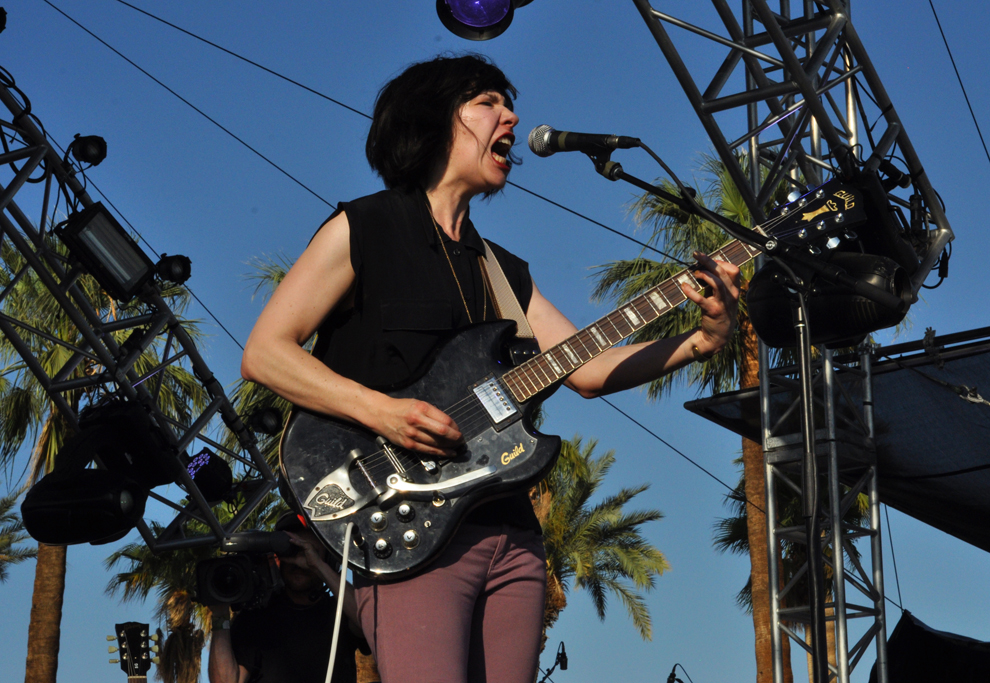 Carrie Brownstein of Wild Flag, Coachella 2012, Day three, Sunday, April 22, 2012